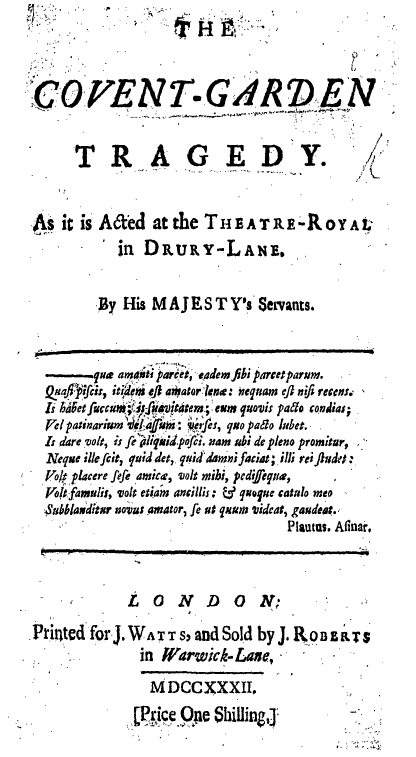 Fielding, Henry. The Covent-Garden tragedy. As it is acted at the Theatre-Royal in Drury-Lane. By His Majesty's servants. London: Printed for J. Watts, 1732.